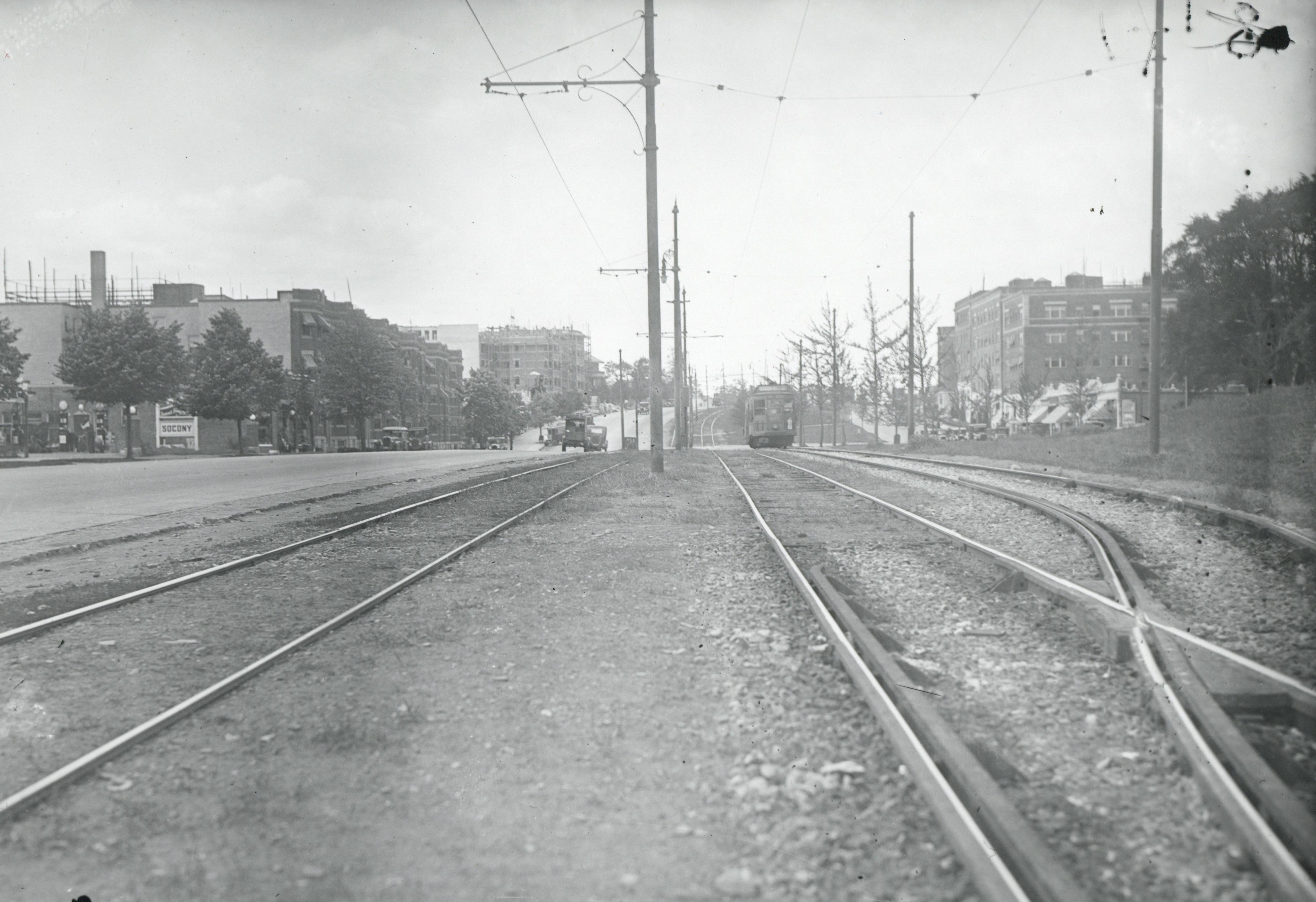 Commonwealth Avenue just west of Summit Avenue in the late 1920s, with the site of the modern Washington Street station in the background. The siding at right was in place from 1926 to 1953.